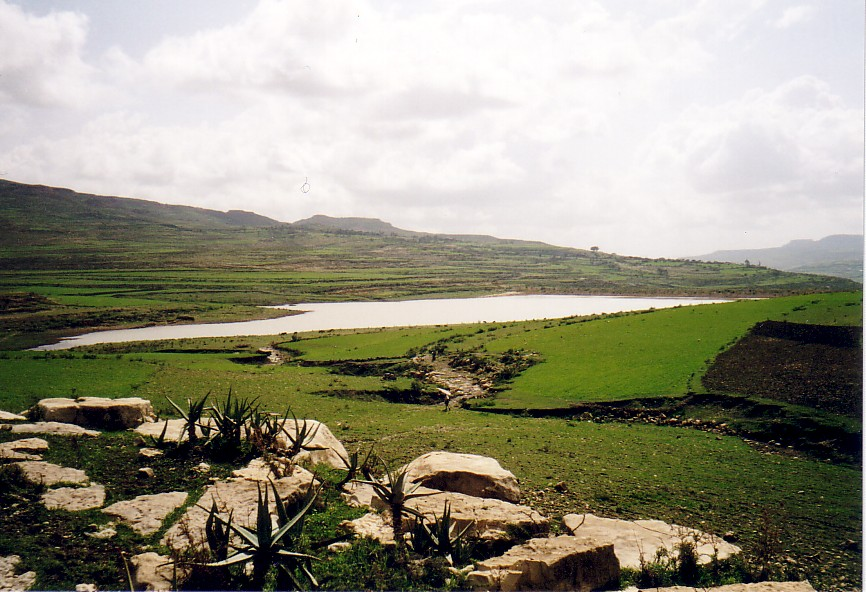 May Leiba 2